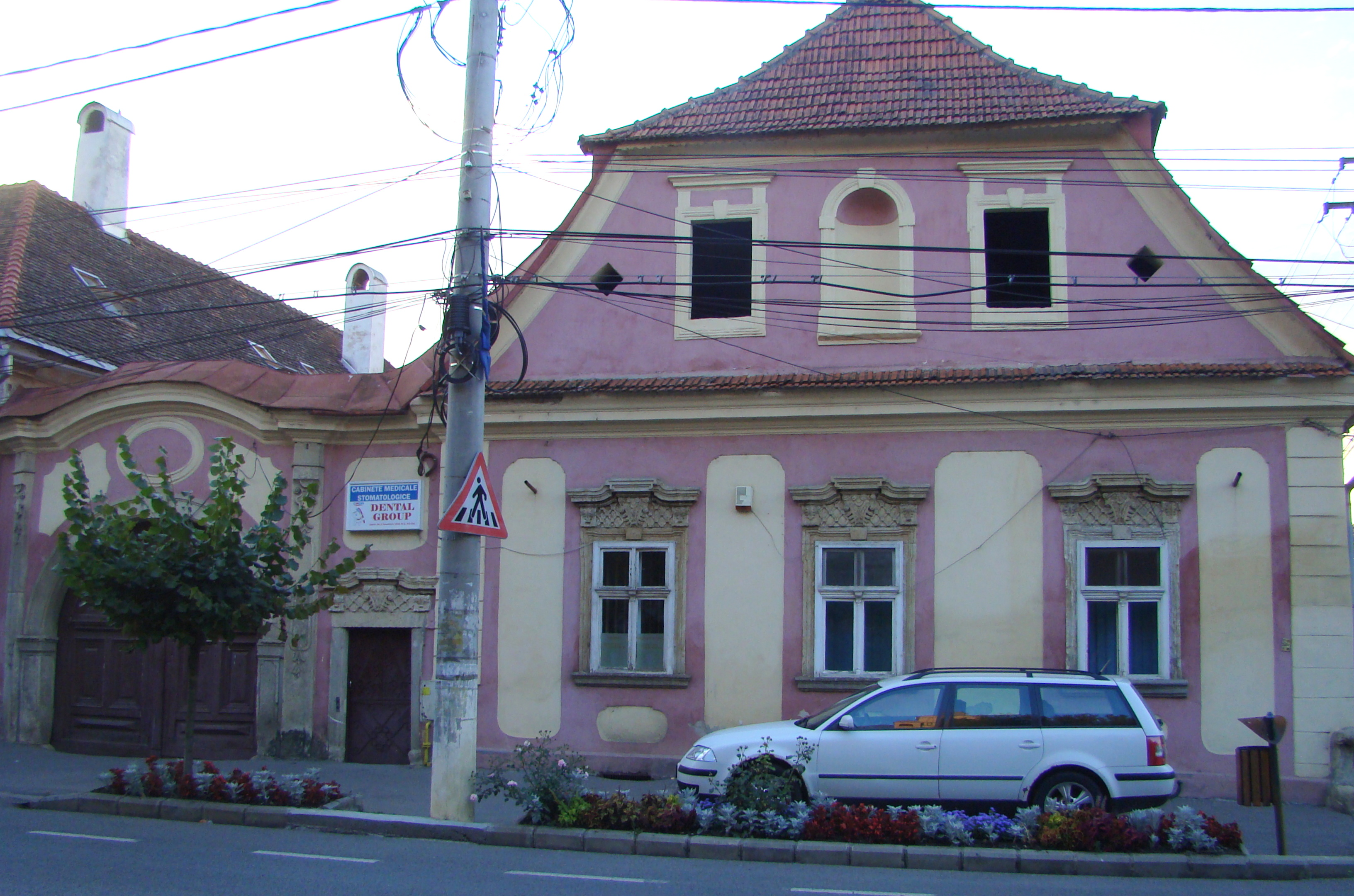 House, historic monument in Gherla, 1 Decembrie 1918 street, nr 2